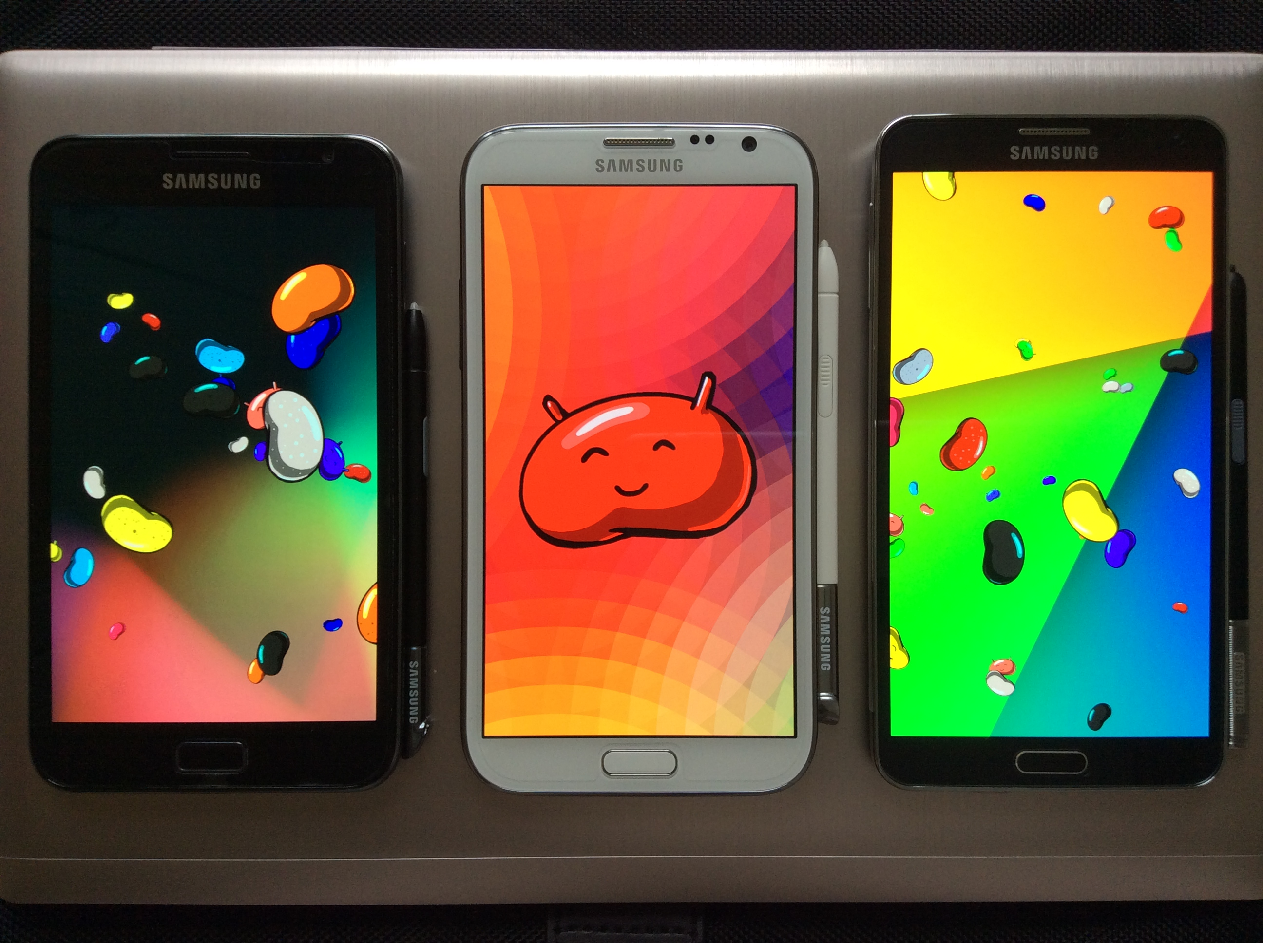 Samsung Galaxy Note series smartphones (Original, 2, 3)